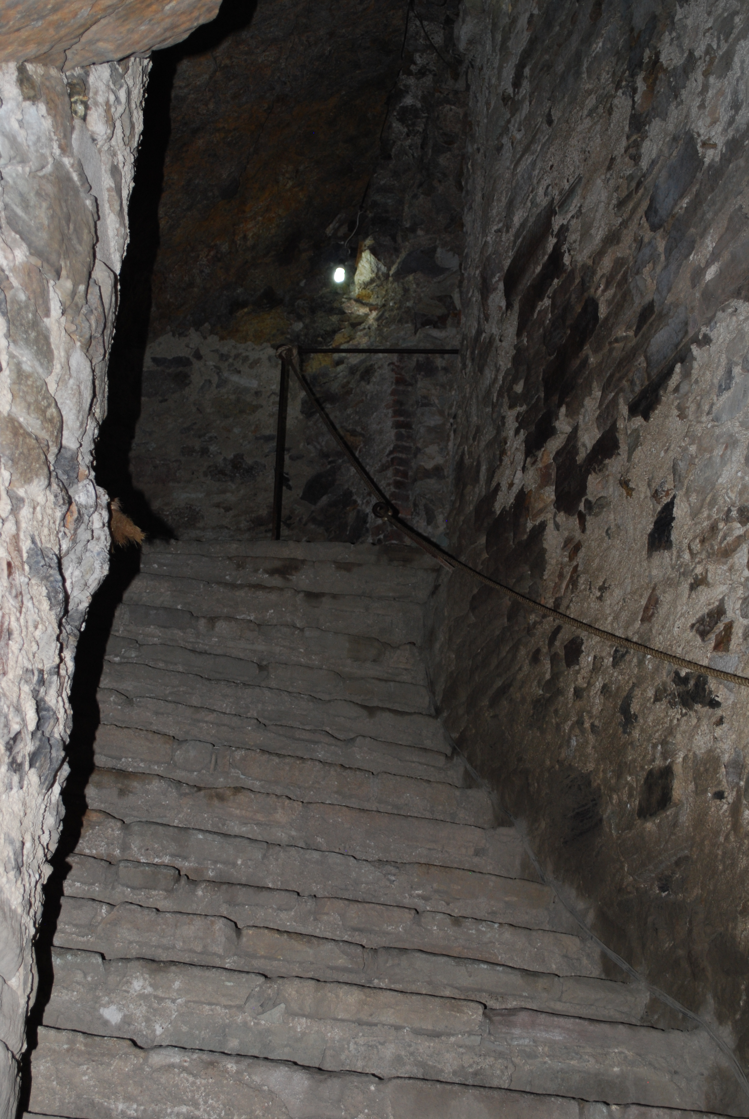 Stairwell into the main shaft of the Bocamina mine in Guanajuato, Mexico